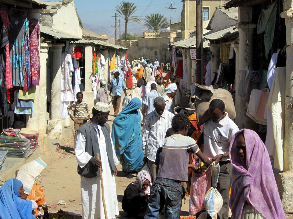 The clothing market in Keren, Eritrea.